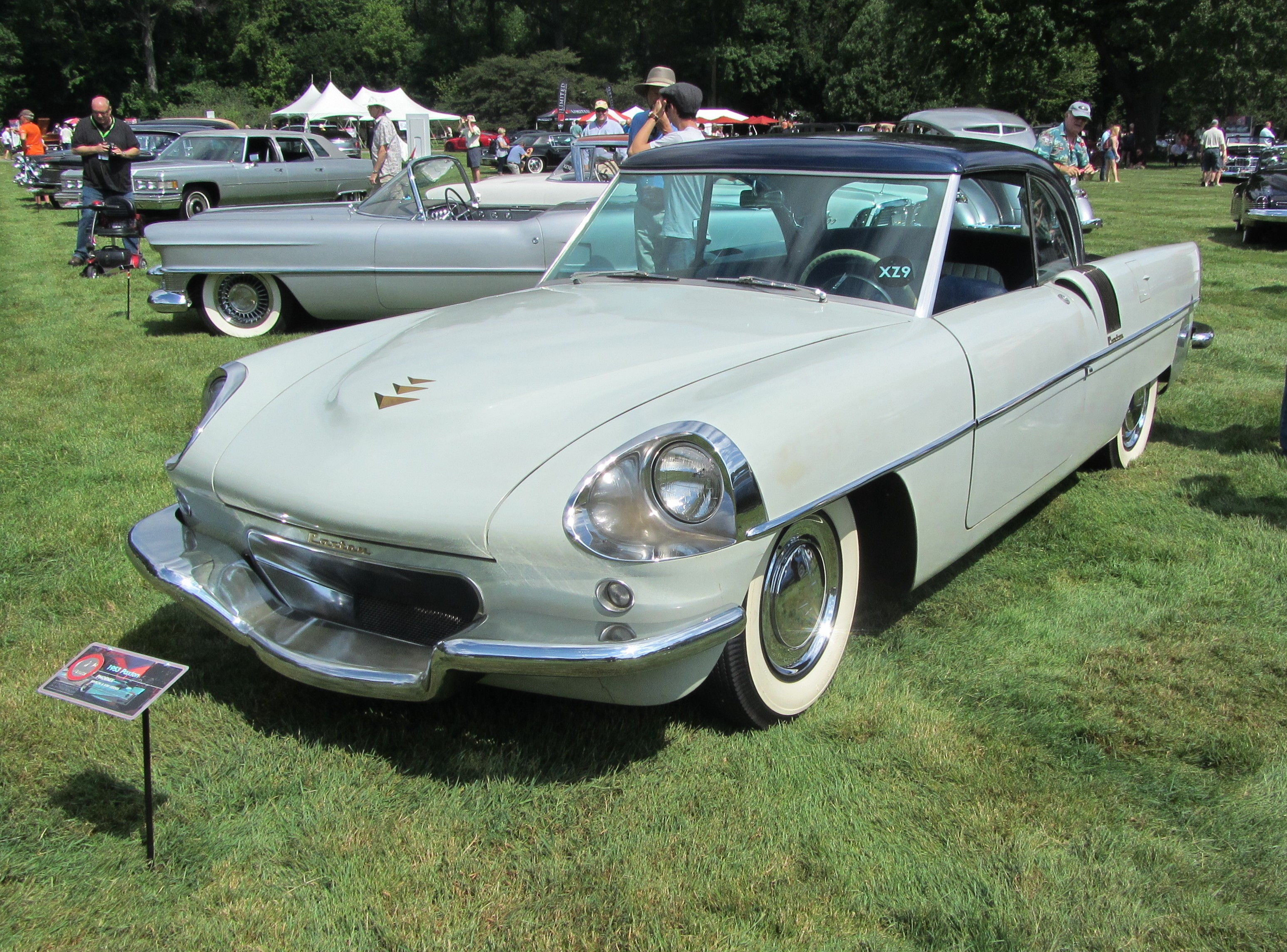 1953 Paxton Phoenix dream car made by Robert Paxton McCulloch